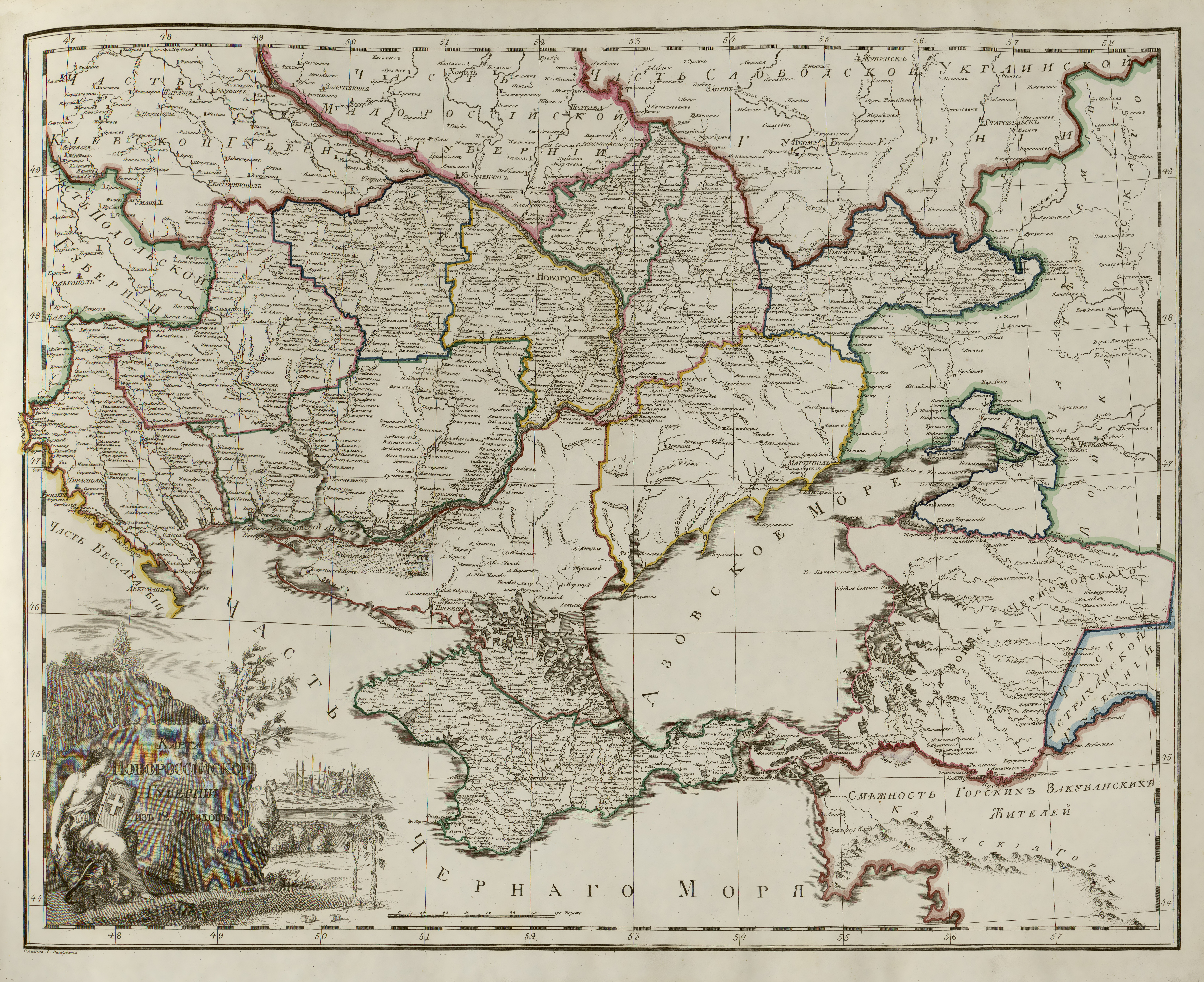 Atlas of Russian Empire. 1800 year. List 38. Novorossiyskaya Province from 12 uyezds